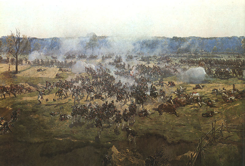 Bagration flèches, Detail of his panoramic painting The Borodino Battle (1912)